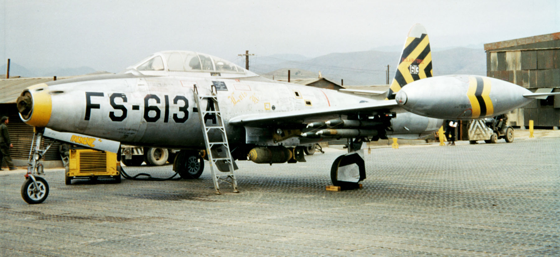 A U.S. Air Force Republic F-84E-30-RE Thunderjet (s/n 51-613) of the 8th Fighter Bomber Squadron, 49th Fighter Bomber Group, fitted with 227 kg bombs, 12.7 cm HVAR rockets, somewhere in Korea. The three tip tank stripes identify the pilot of this aircraft as squadron leader.